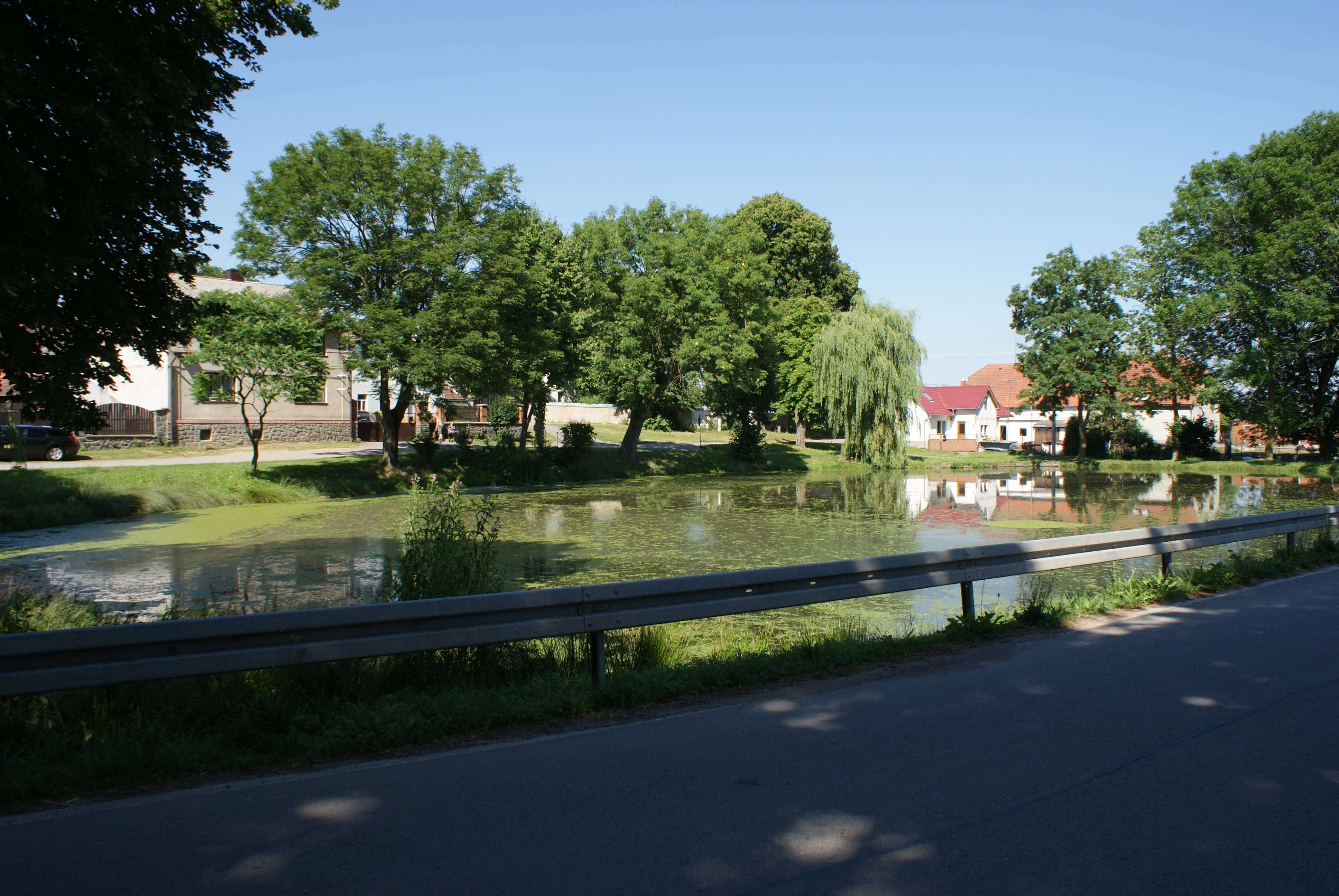 Tušovice, a village in Příbram district, Czech Republic, the village common. Česky: Tušovice, okres Příbram, náves